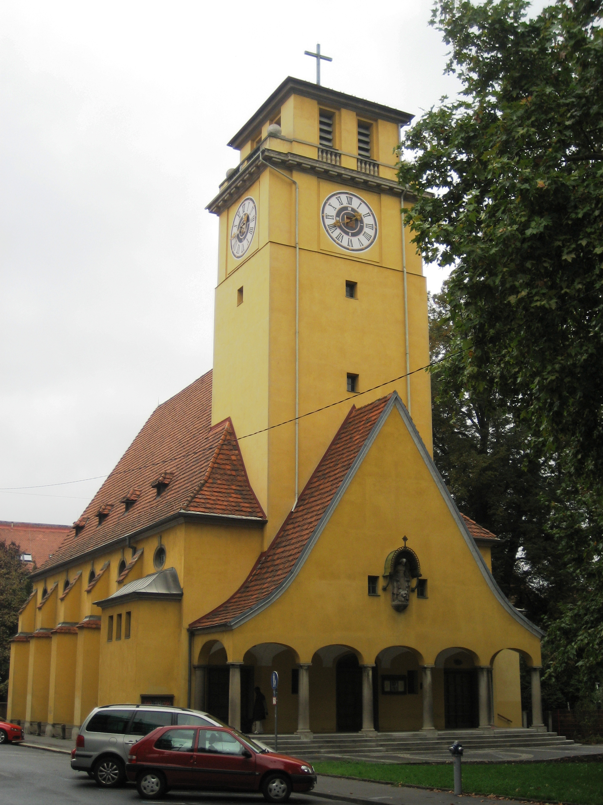 "Kreuzkirche", a protestant church in Graz, Austria